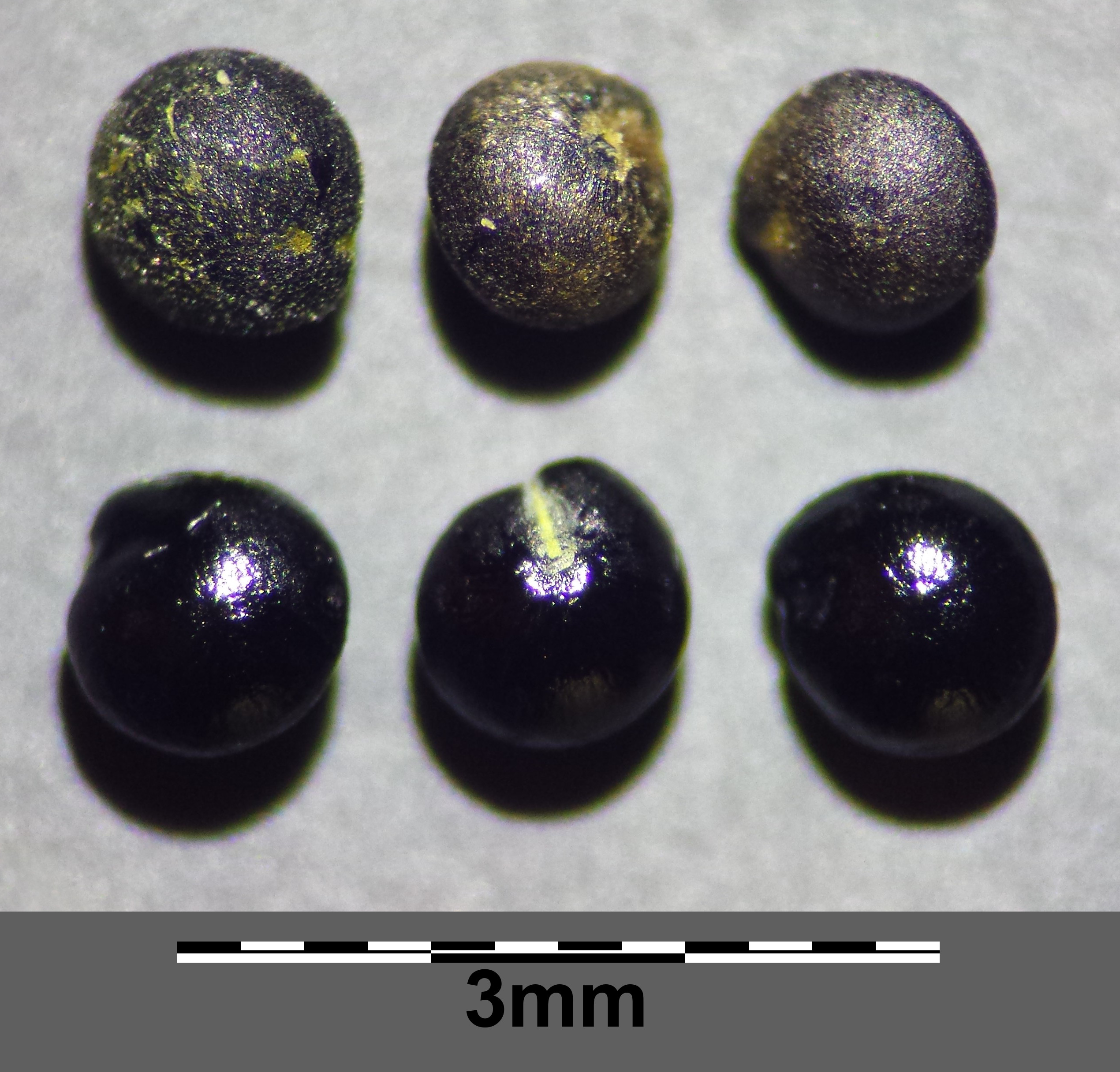 Seeds Taxonym: Chenopodium vulvaria ss Fischer et al. EfÖLS 2008 ISBN 978-3-85474-187-9 Location: Kagran, Vienna-Donaustadt - ca. 160 m a.s.l. Habitat: wall base